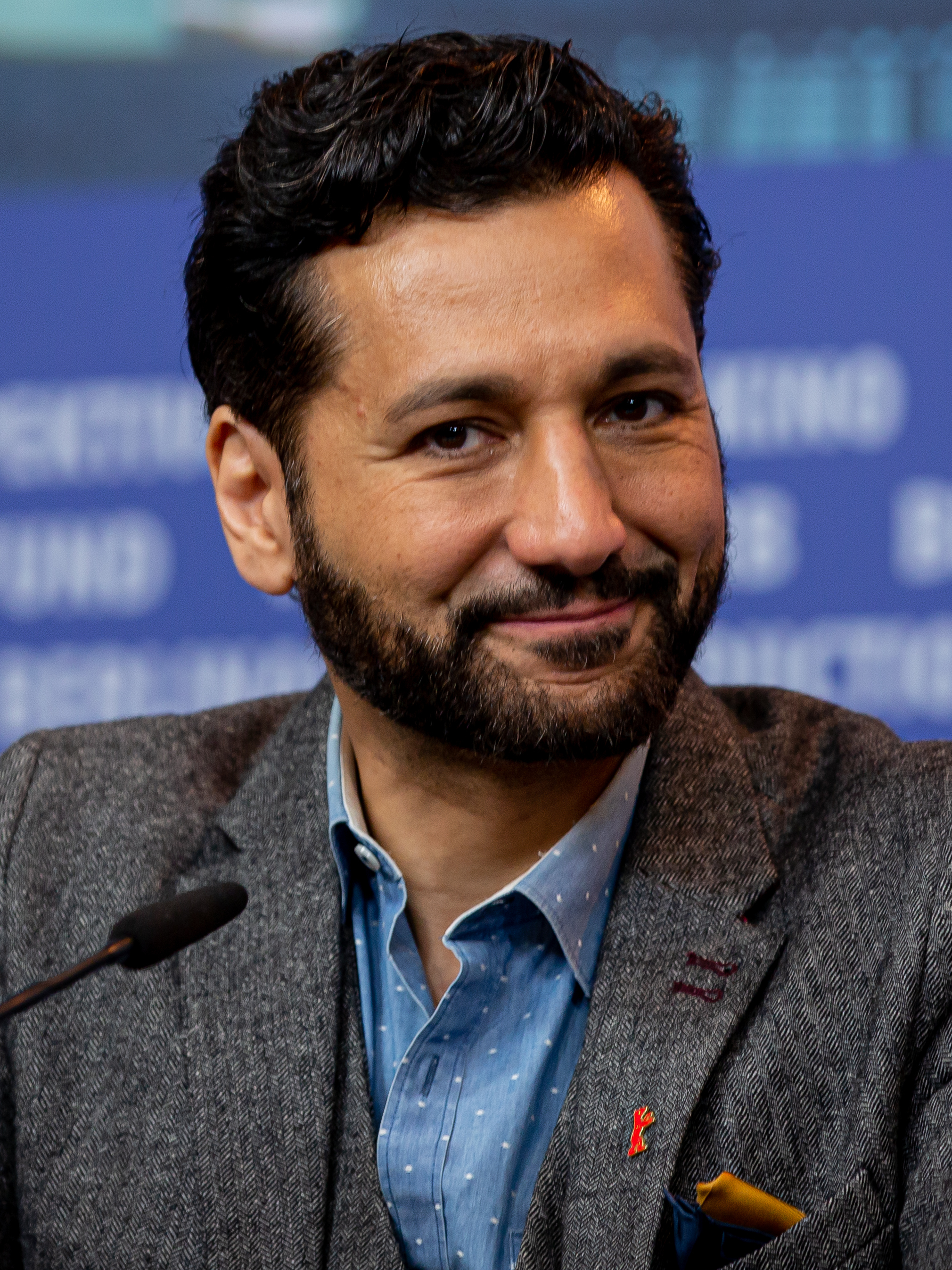 Actor Cas Anvar at the Berlinale 2019